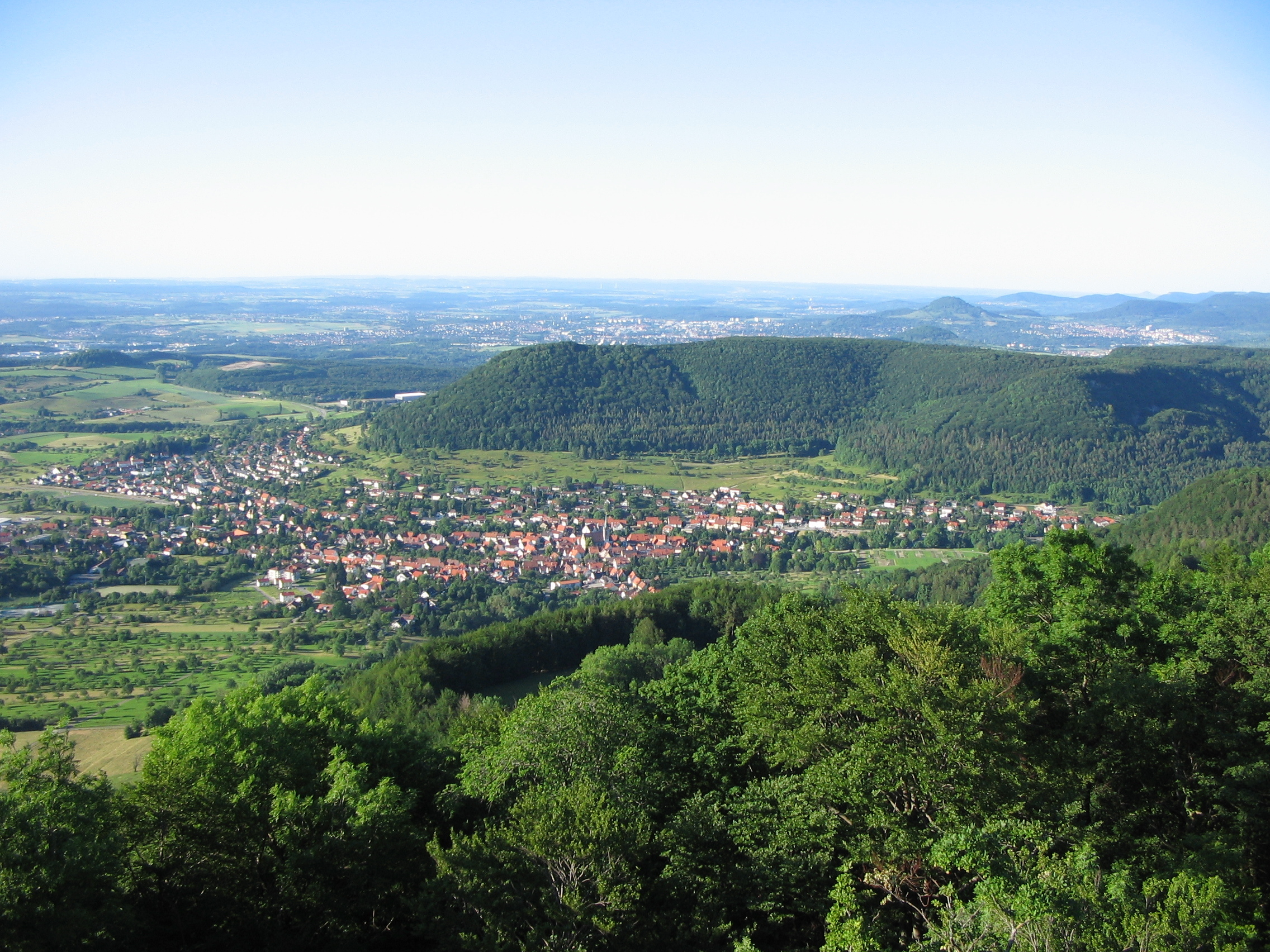 View from Rossberg-Tower onto Gönningen. Behind that you see the "Stöffelberg" and behind that you see Reutlingen and the "Achalm".